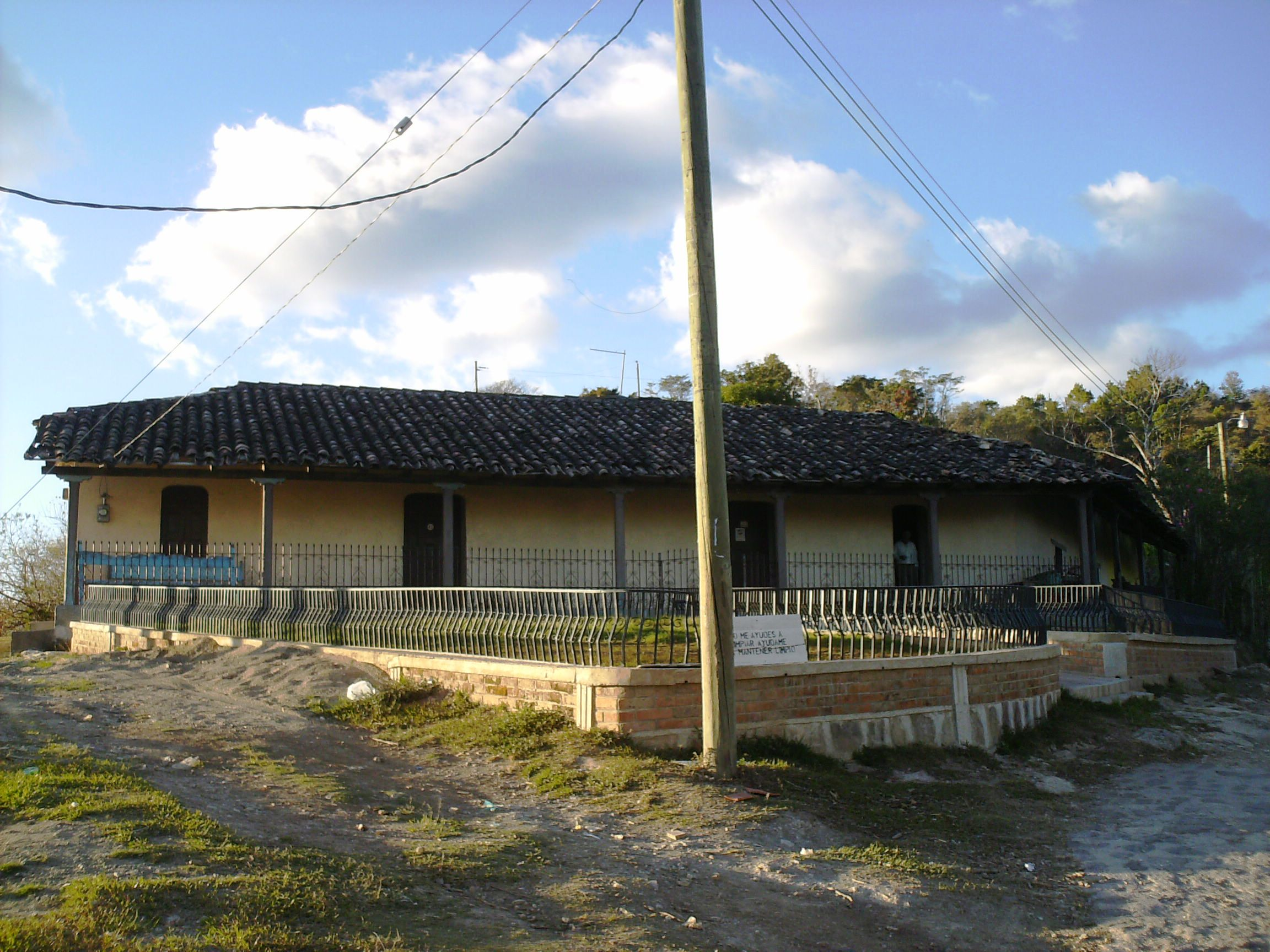 Gualcince, municipality in the Honduran department of Lempira.